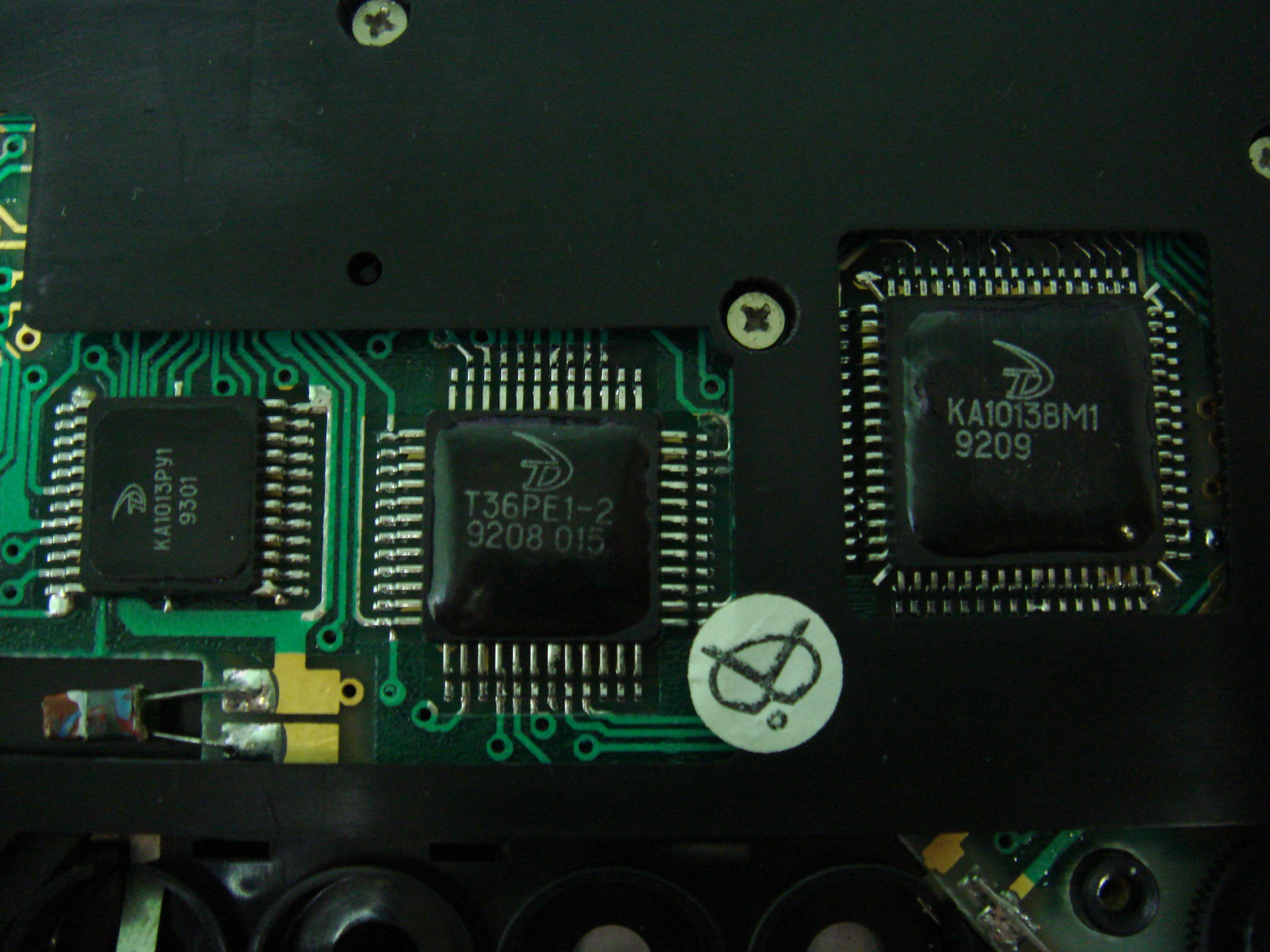 Programmable calculator "Elektronika MK-85" (ICs: KA1013VM1, KA1013RU1, T36RE1-2)